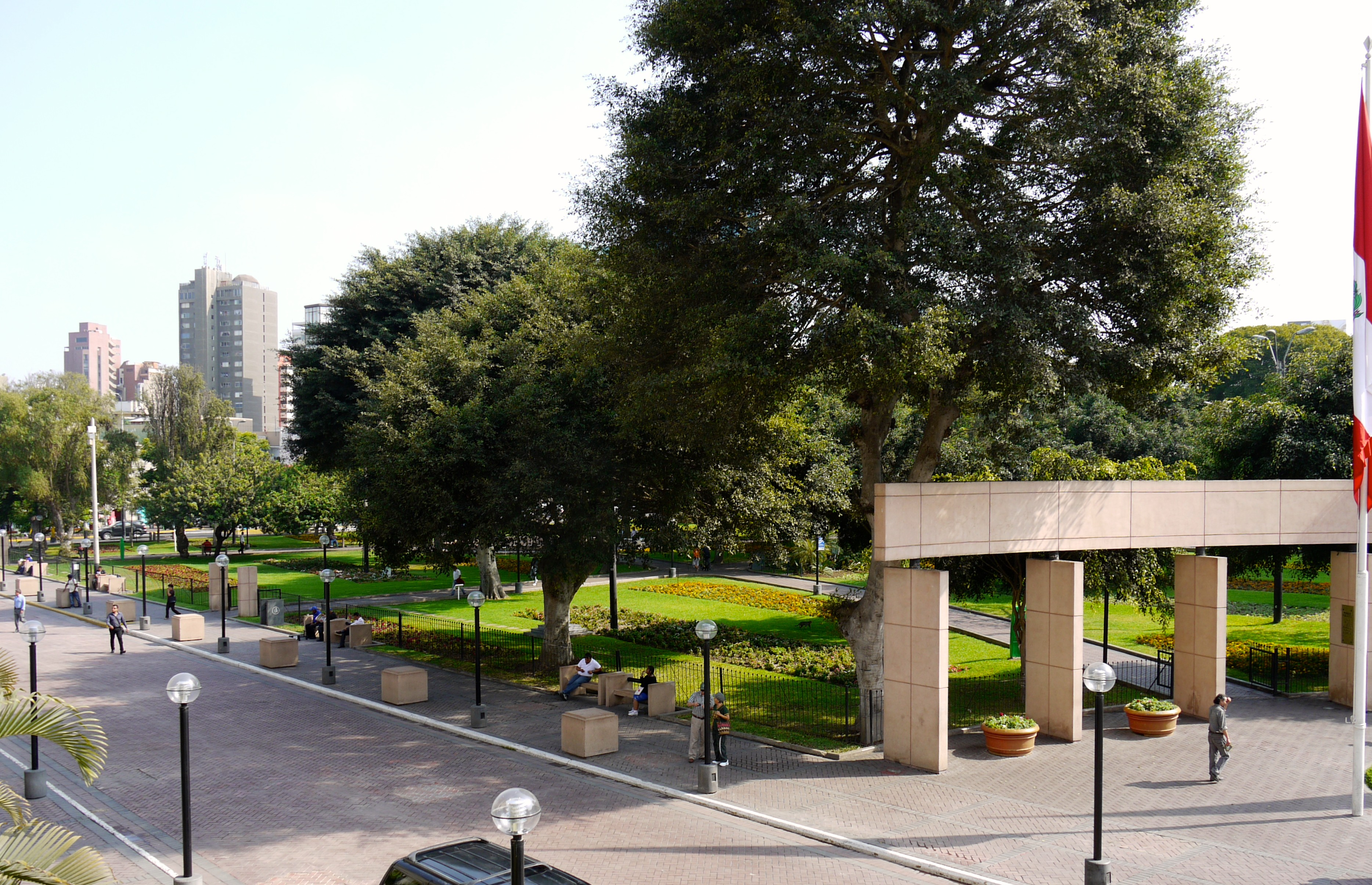 Peru, Lima, the entrance of Parque Kennedy to the town hall of Miraflores.